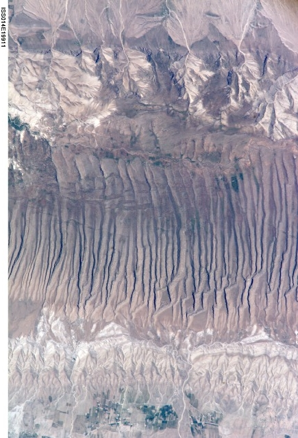 Detail des Dschabal Sindschar Bild ISS014-E-19910.jpg von